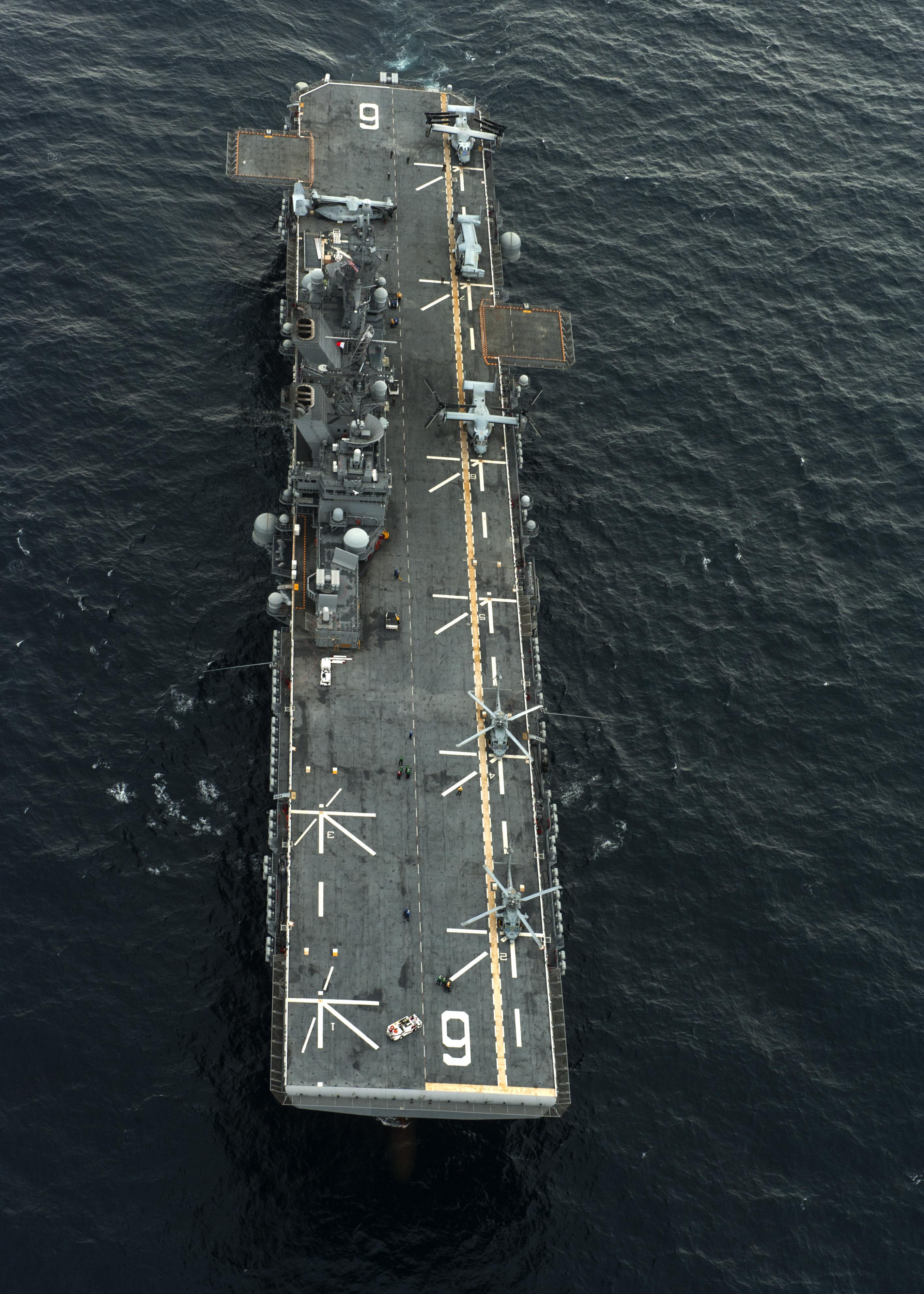 The U.S. Navy amphibious assault ship USS America (LHA-6) transits the Atlantic Ocean en route to its homeport, San Diego, California (USA). America was traveling through the U.S. Southern Command and U.S. 4th Fleet areas of responsibility on its maiden transit, "America visits the Americas".